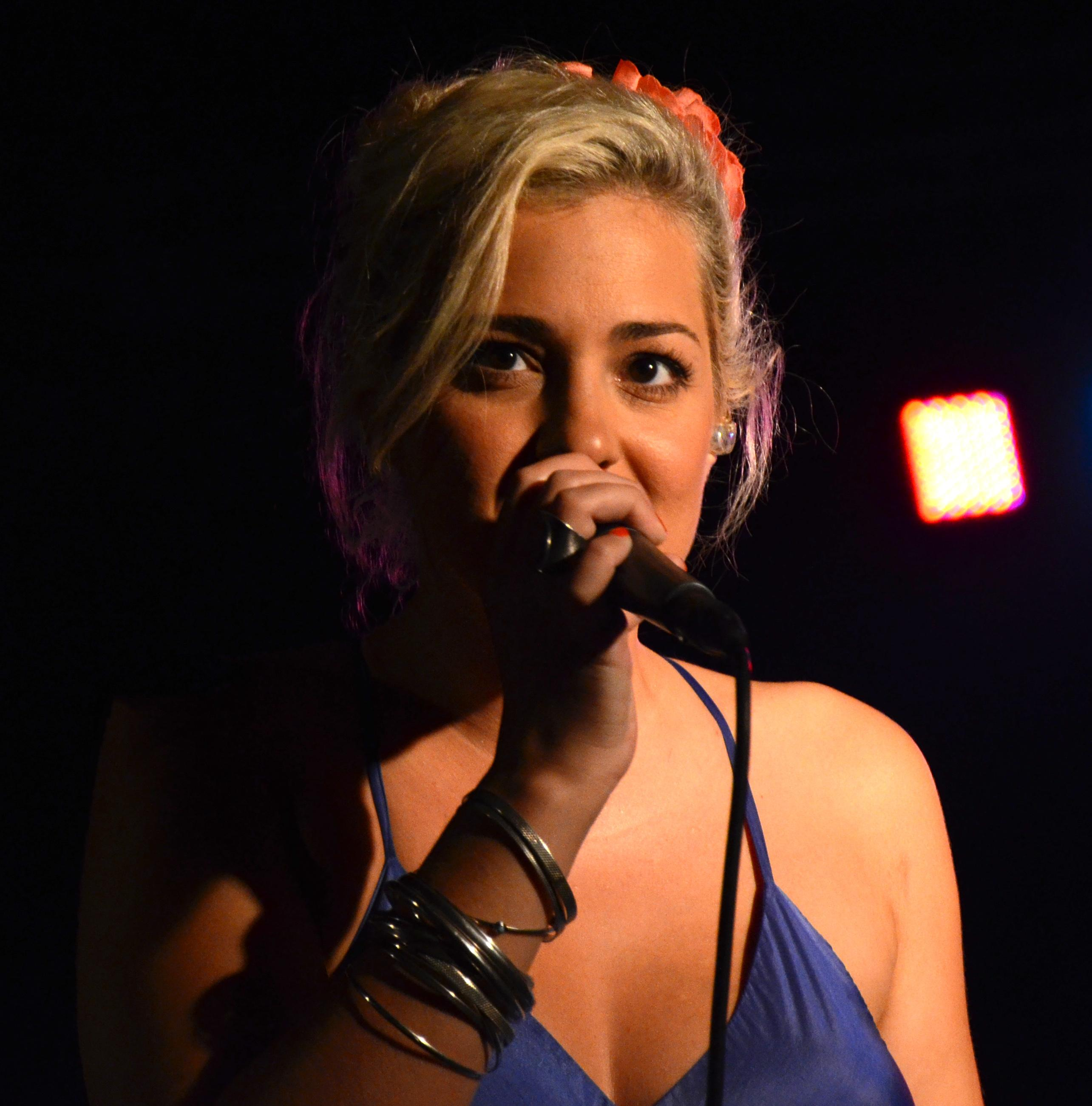 Greek singer Natassa Bofiliou at Oiti Festival in Greece, 29 June 2012.